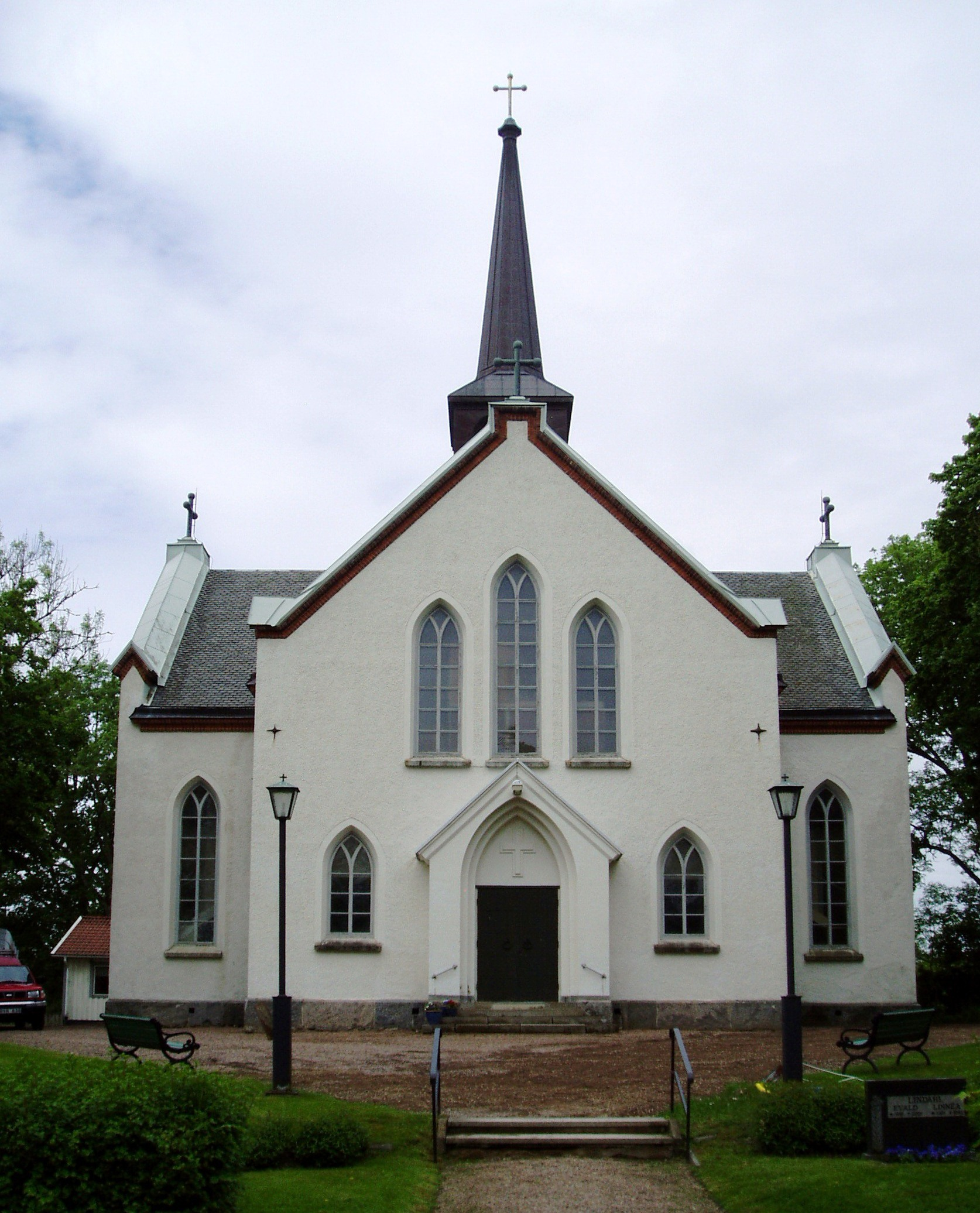 Fyrunga church, Vara municipality, Sweden